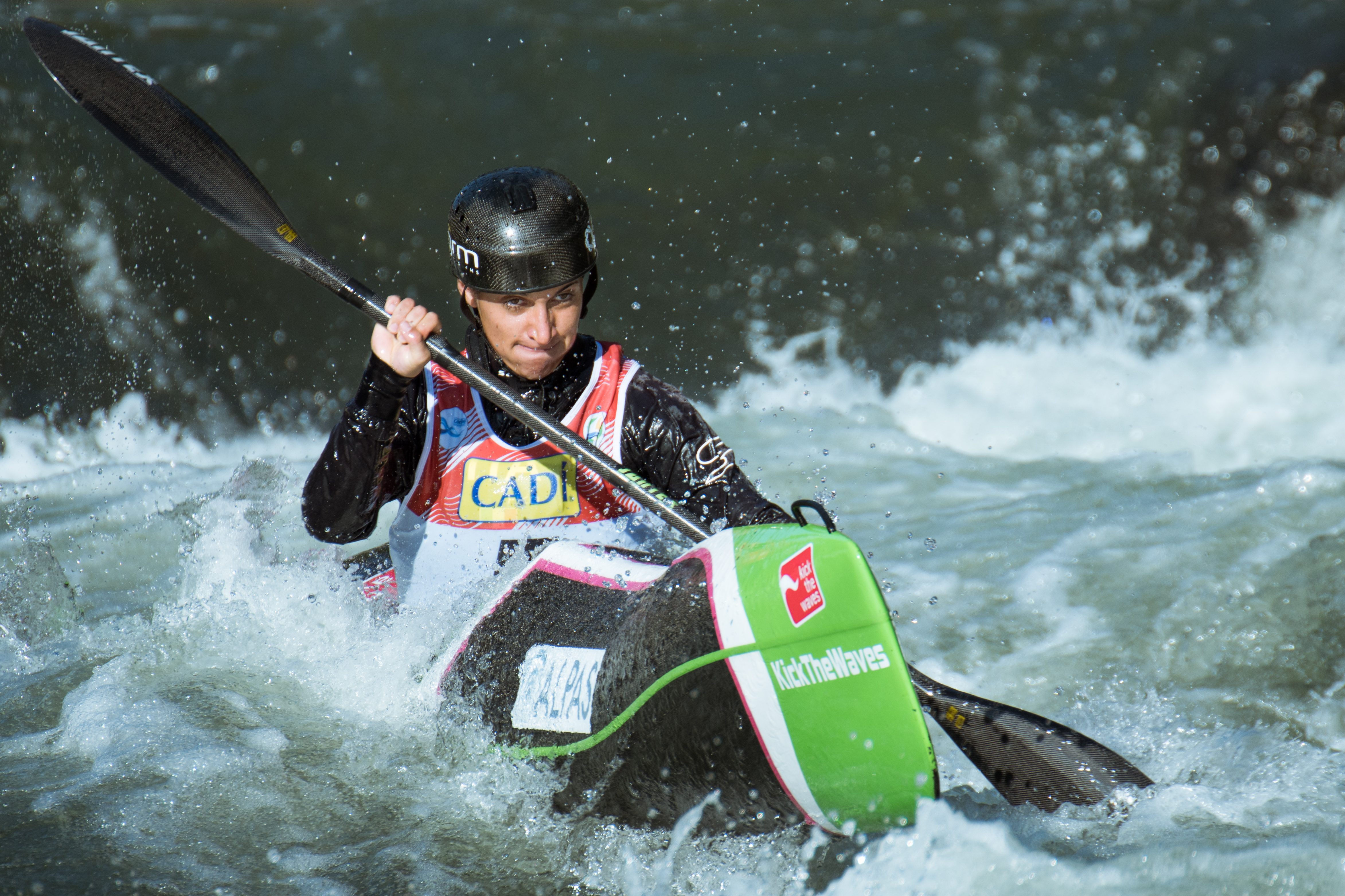 Mathilde Rosa during the 2019 Canoe Wildwater World Championships in La Seu d'Urgell, Spain.